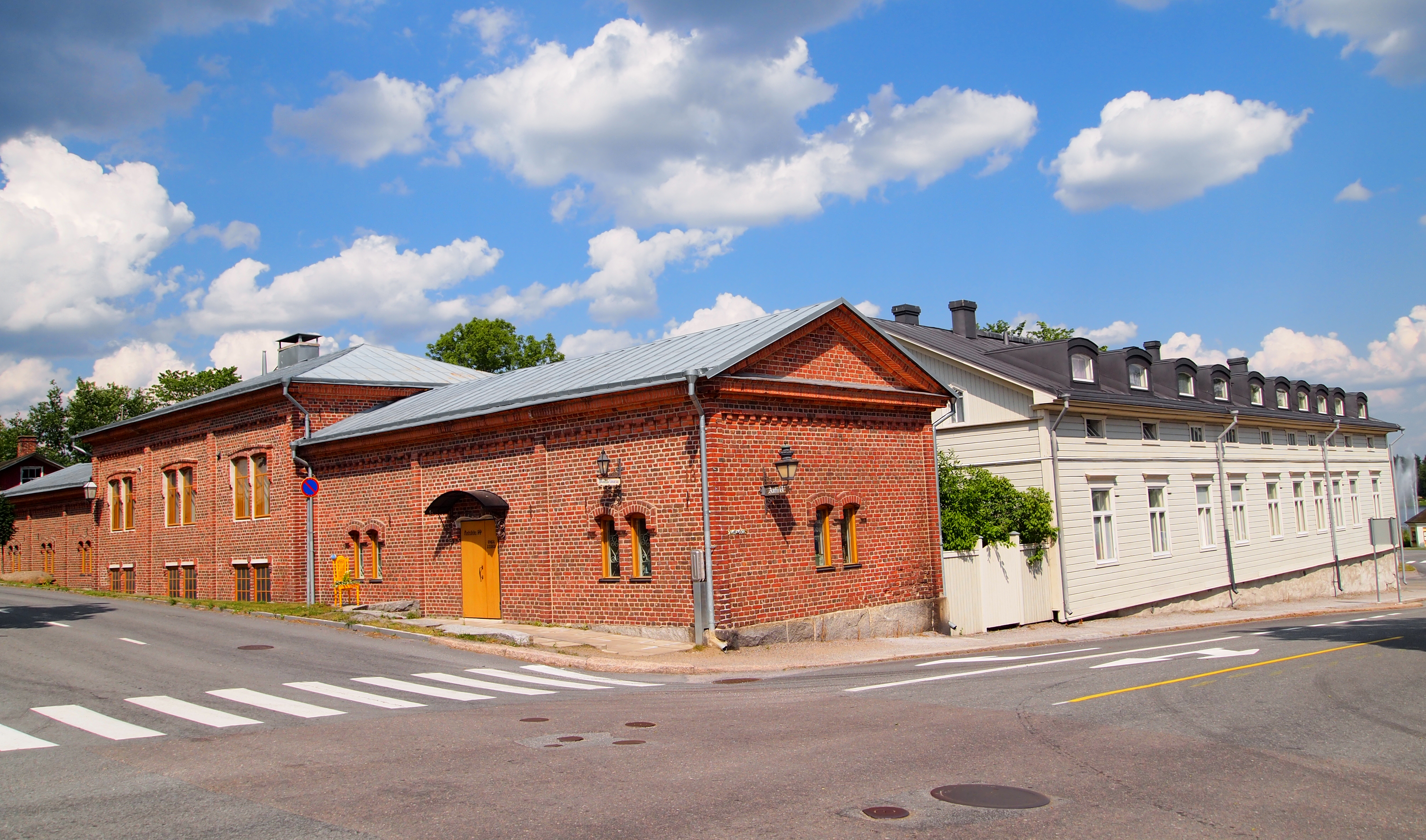 Buildings in Uusikaupunki. This photograph was taken with an Olympus E-PL1